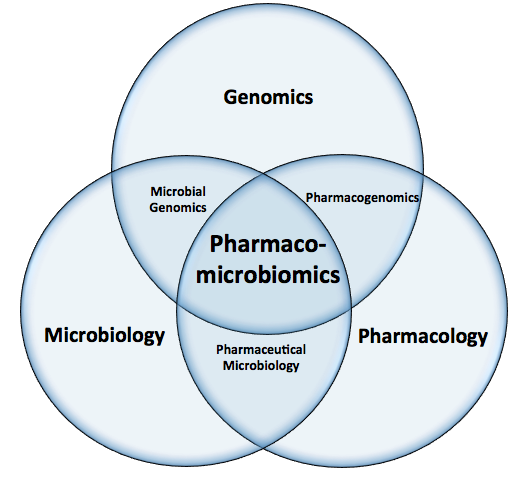 This Venn diagram shows that pharmacomicrobiomics is a sub-field of genomics, microbiology, and pharmacology.